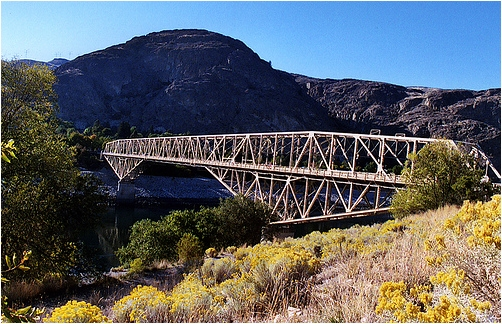 The Coulee Dam Bridge, Coulee Dam, Washington, USA.